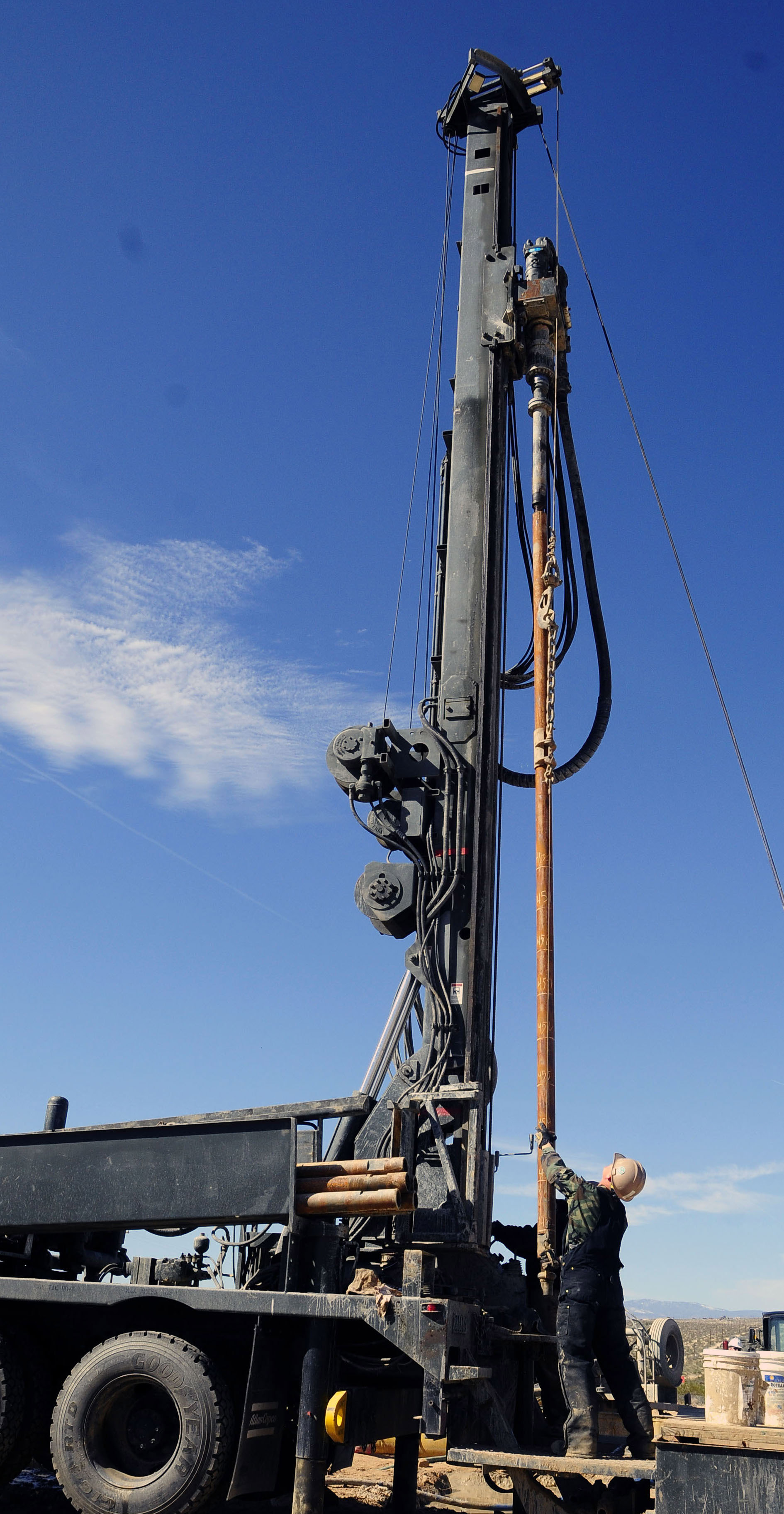 TWENTYNINE PALMS, Calif. (Feb. 26, 2009) Construction Electrician Constructionman Greg Langdon, assigned to Naval Mobile Construction Battalion (NMCB) 1, installs a new section of drill steel during a water well drilling operation. NMCB-1 drilled three 800 to 1000 foot deep holes for the U.S. Navy Geothermal Program Office to support research on local geothermal energy potential. (U.S. Navy photo by Mass Communication Specialist Seaman Ernesto Hernandez Fonte/Released)